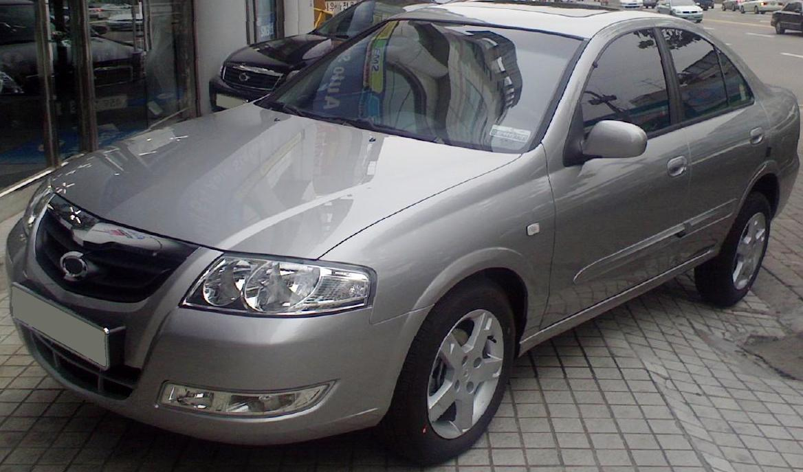 Samsung SM3